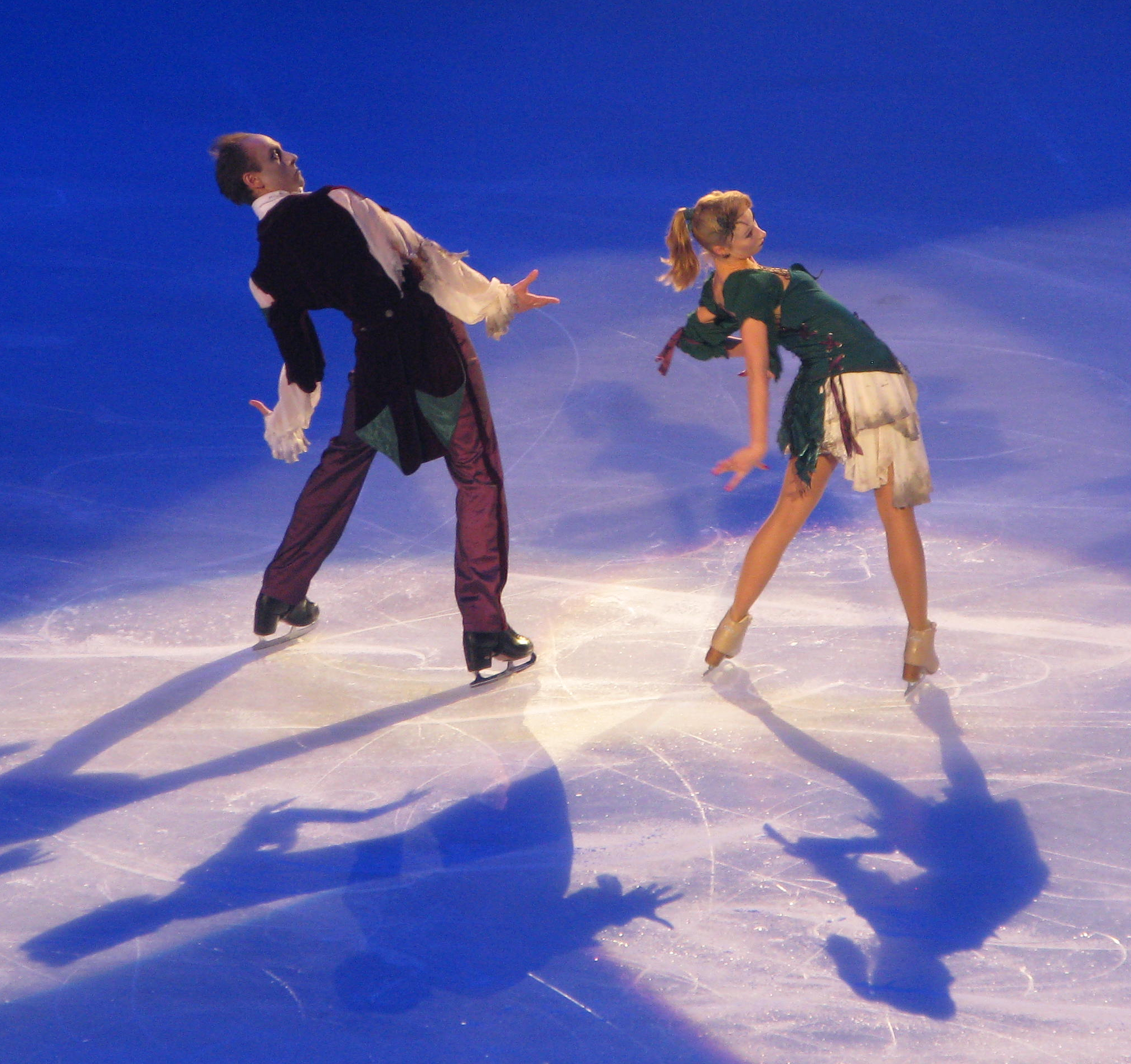 Skaters Nelli Zhiganshina and Alexander Gazsi at the figure skating gala exhibition of 2013 Trophée Éric Bompard in Bercy, Paris.